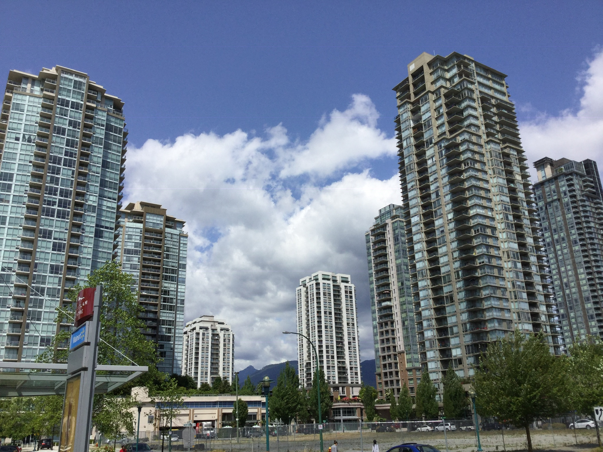 Coquitlam on May 30 2018.